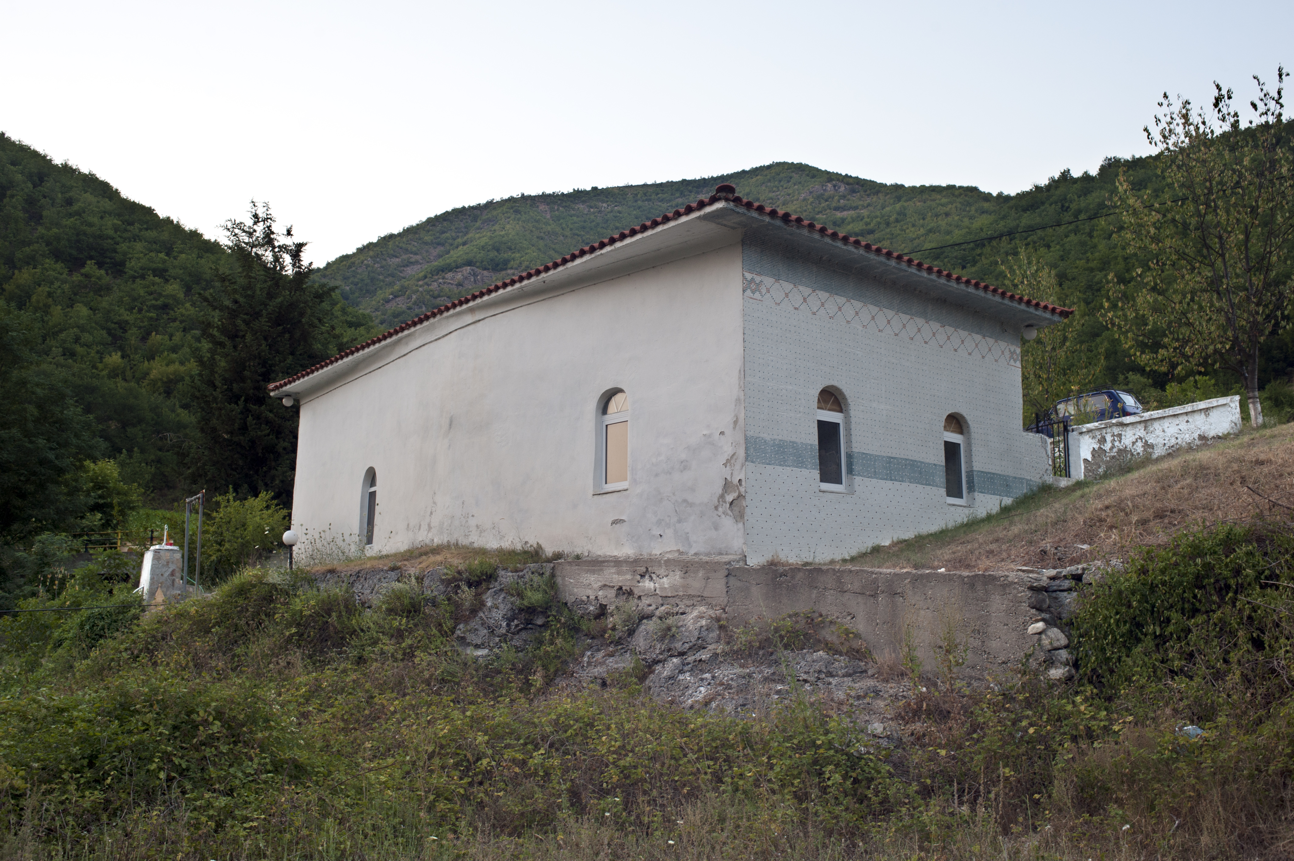 Ottoman Budali Hoca Tekke - Turbe -Thermes - Xanthi, Xanthi Prefecture, Greece.